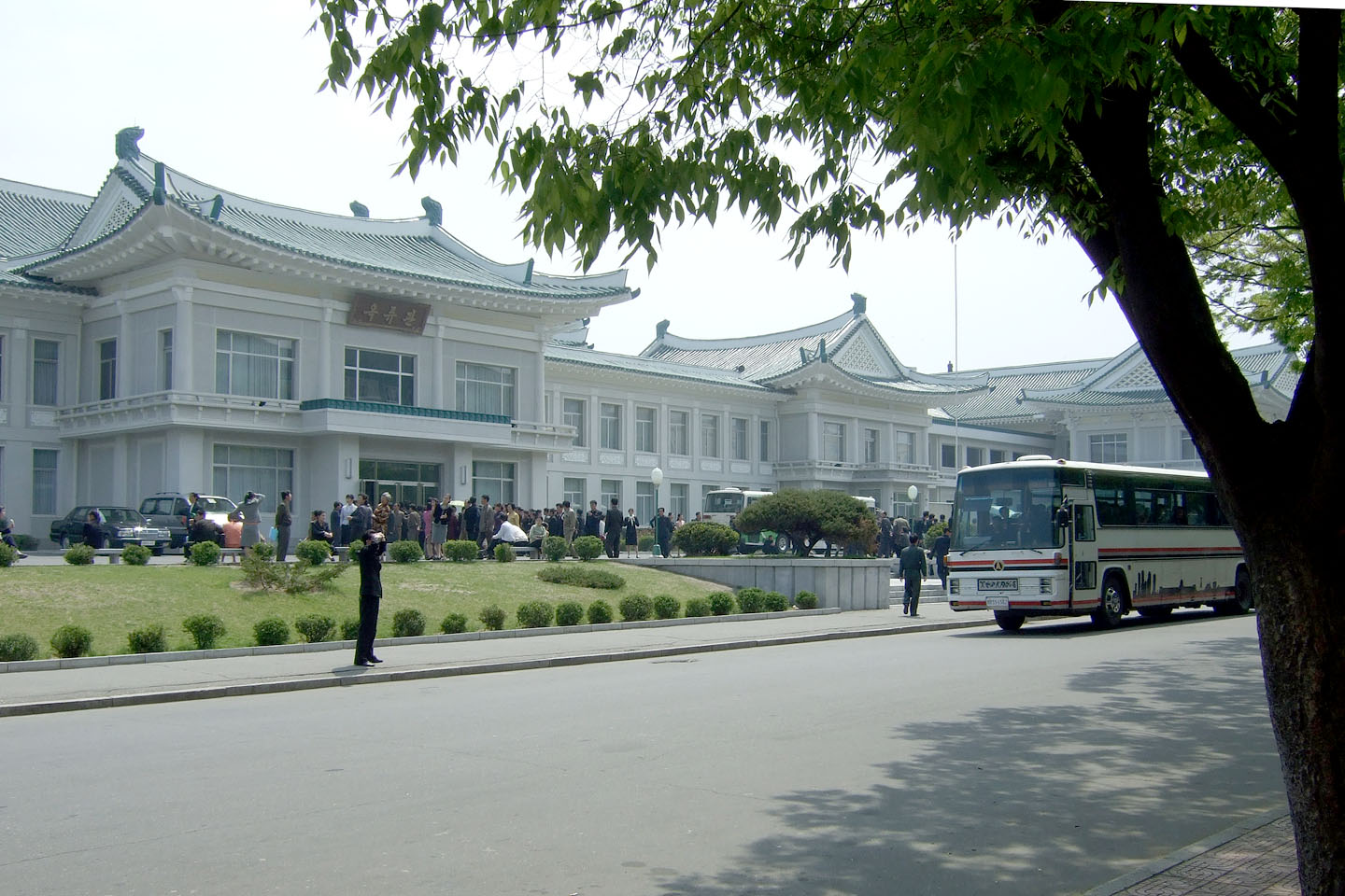 Ongryu Restaurant in Pyongyang, DPRK